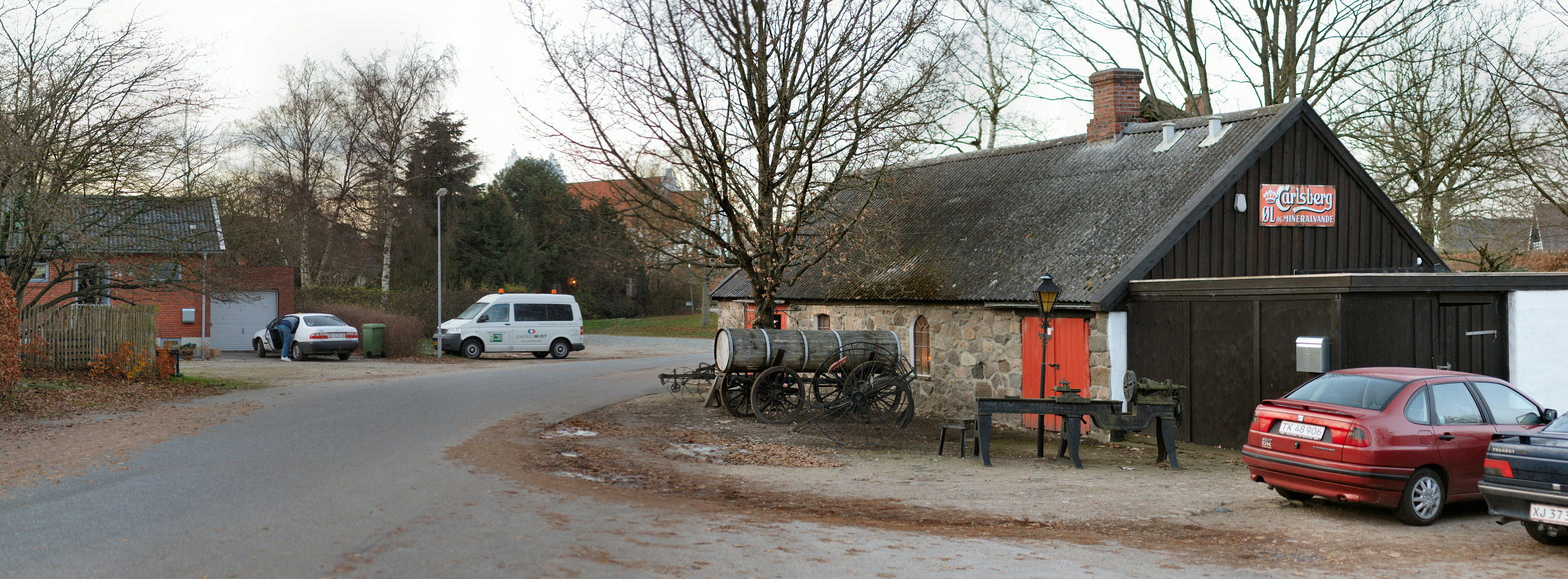 Photo of the old part of the village of Tilst, Århus, Denmark, with a forge which has been changed into a pub.